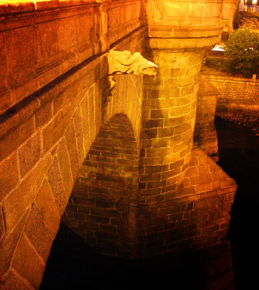 Toledo Bridge (detail), over Manzanares River. Madrid, Spain